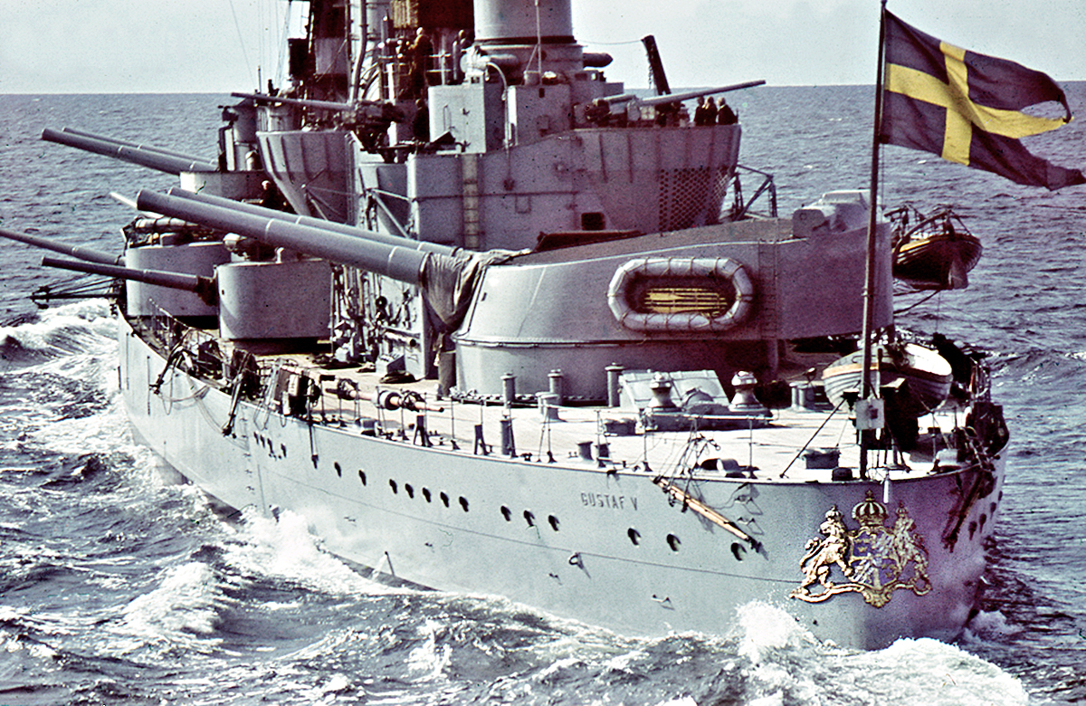 Picture of the Swedish battleship HMS Gustav V.